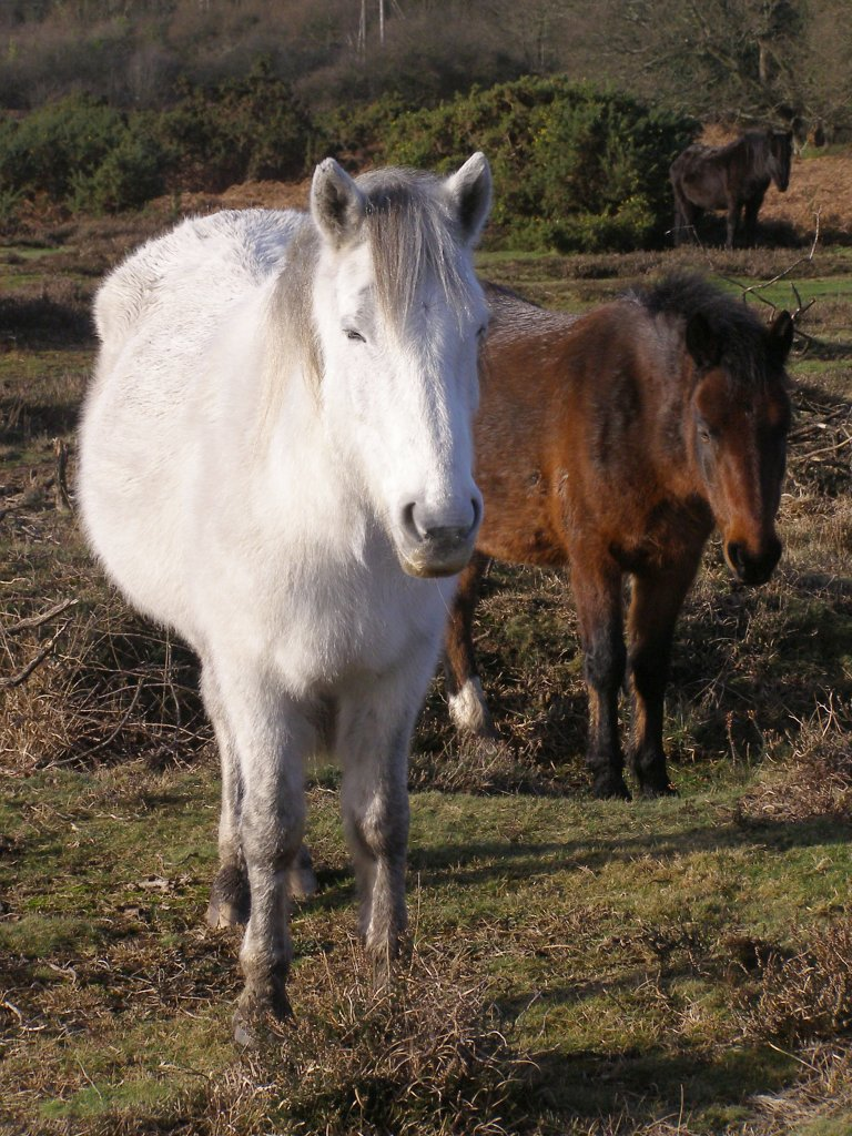 Ponies on Setley Plain, south of Brockenhurst, New Forest, U.K.